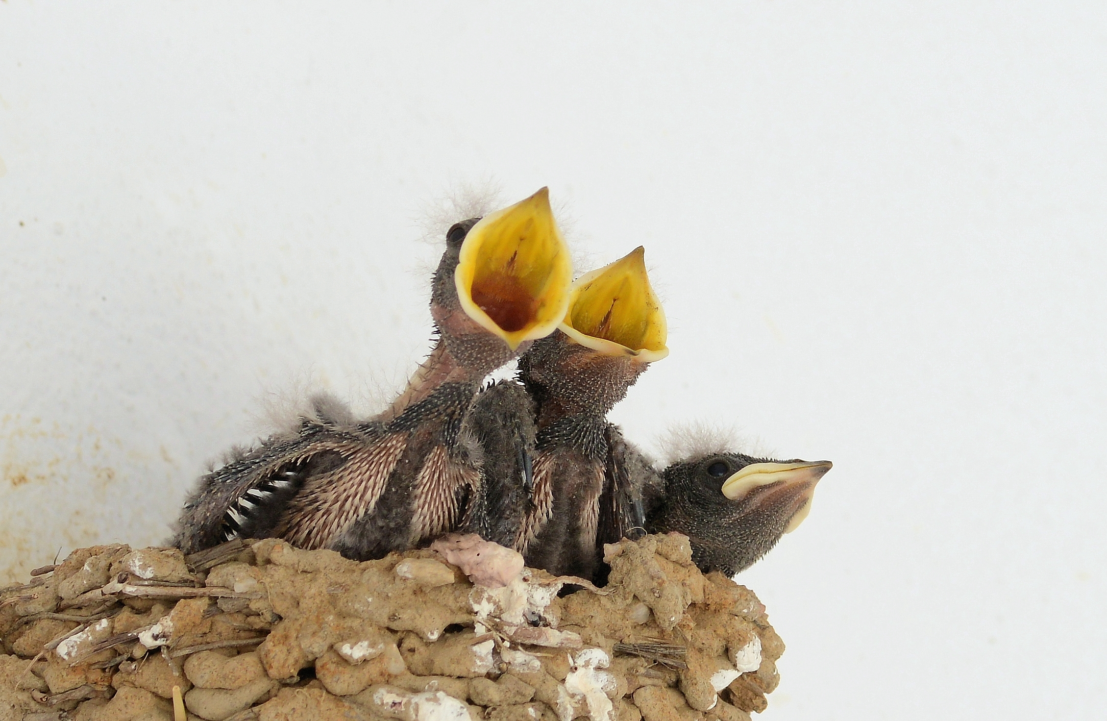 Juvenile Barn Swallows (Hirundo rustica) in the nest. Porto Covo, Portugal